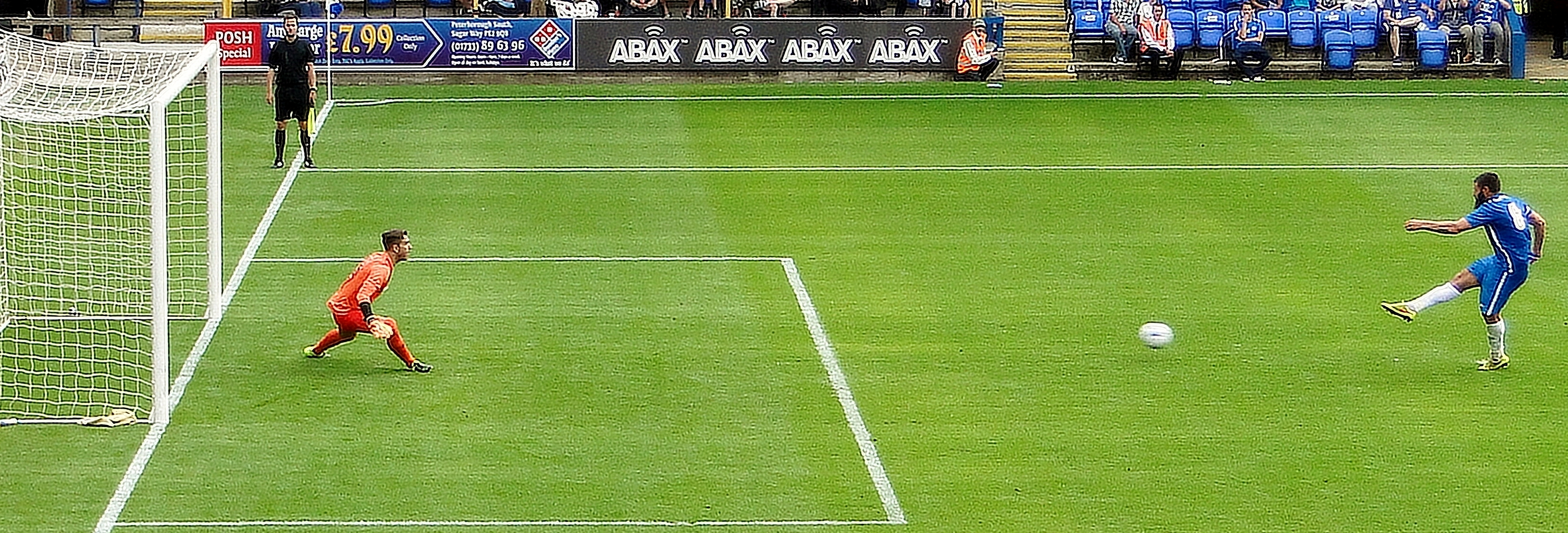 Peterborough United player, Michael Bostwick scores a penalty against West Ham United goalkeeper, Adrian to make the game 3-3 at London Road, Peterborough